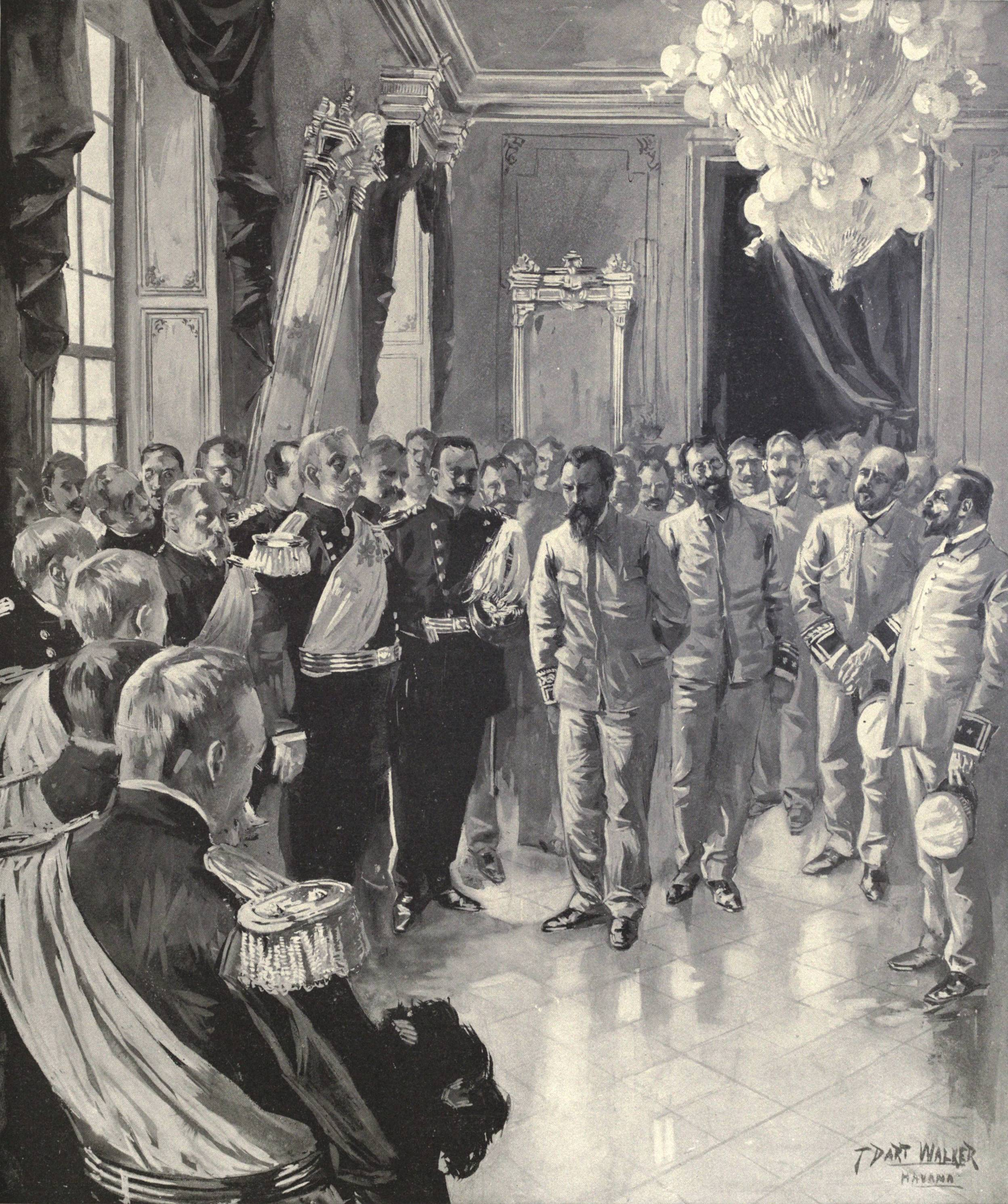 The evacuation of Havana - Farewell courtesies between Spanish and American officers in the palace as twelve o'clock struck. From p. 437 of Harper's Pictorial History of the War with Spain, Vol. II, published by Harper and Brothers in 1899.